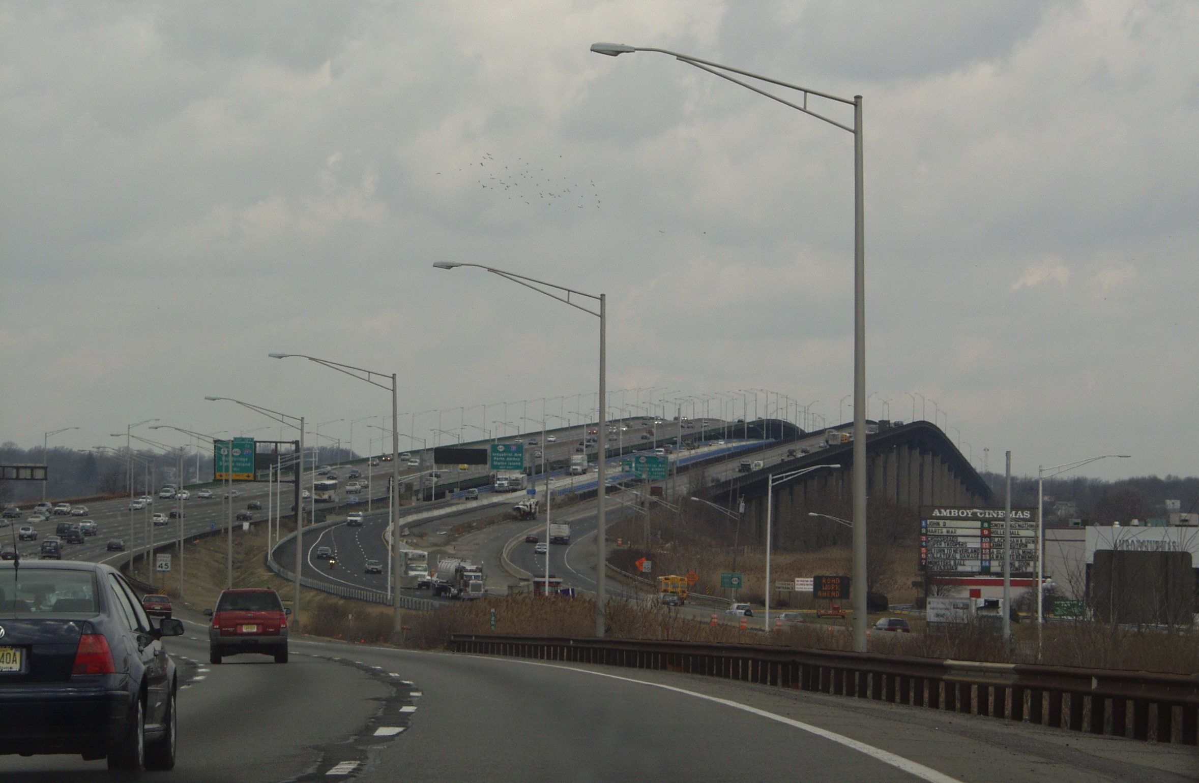 An image of the (left to right) Driscoll Bridge, Vieser Bridge, and Edison Bridge from the northbound Garden State Parkway just past the now-removed Raritan Toll plaza. This image was taken before the Edison Bridge was rebuilt, and at this time the Edison Bridge was taking traffic for northbound US 9 and the Veiser Bridge was only taking the southbound traffic for US 9.